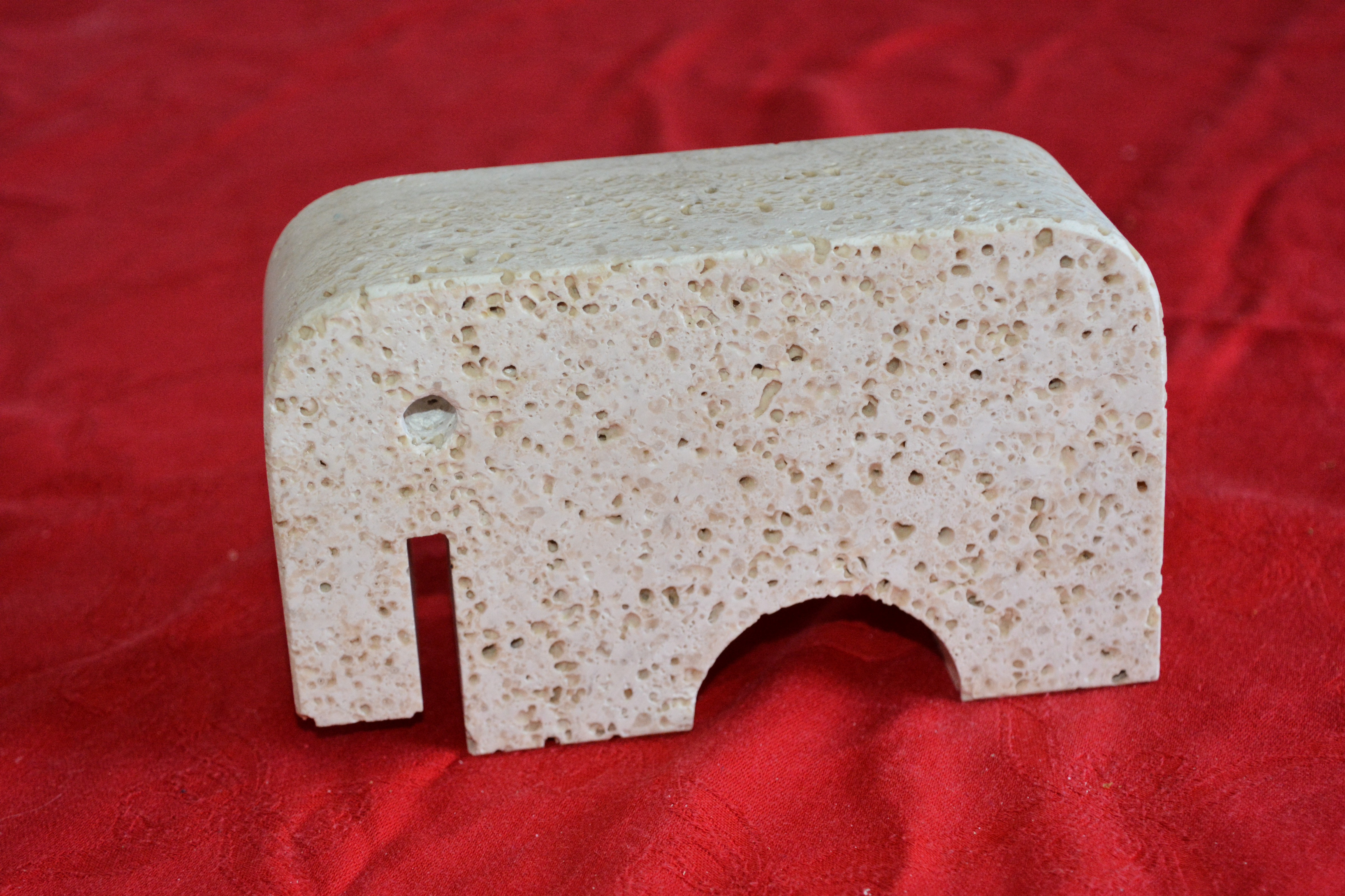 Elephant in travertine